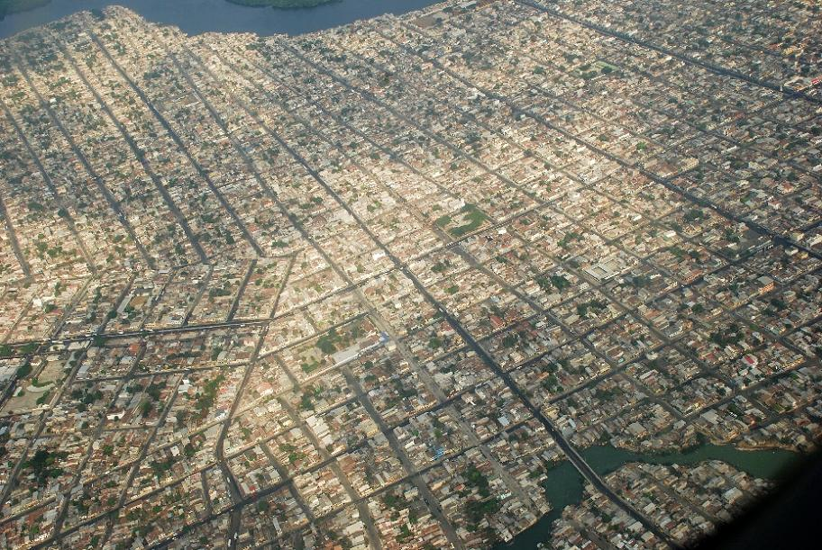 City of Guayaquil, Ecuador